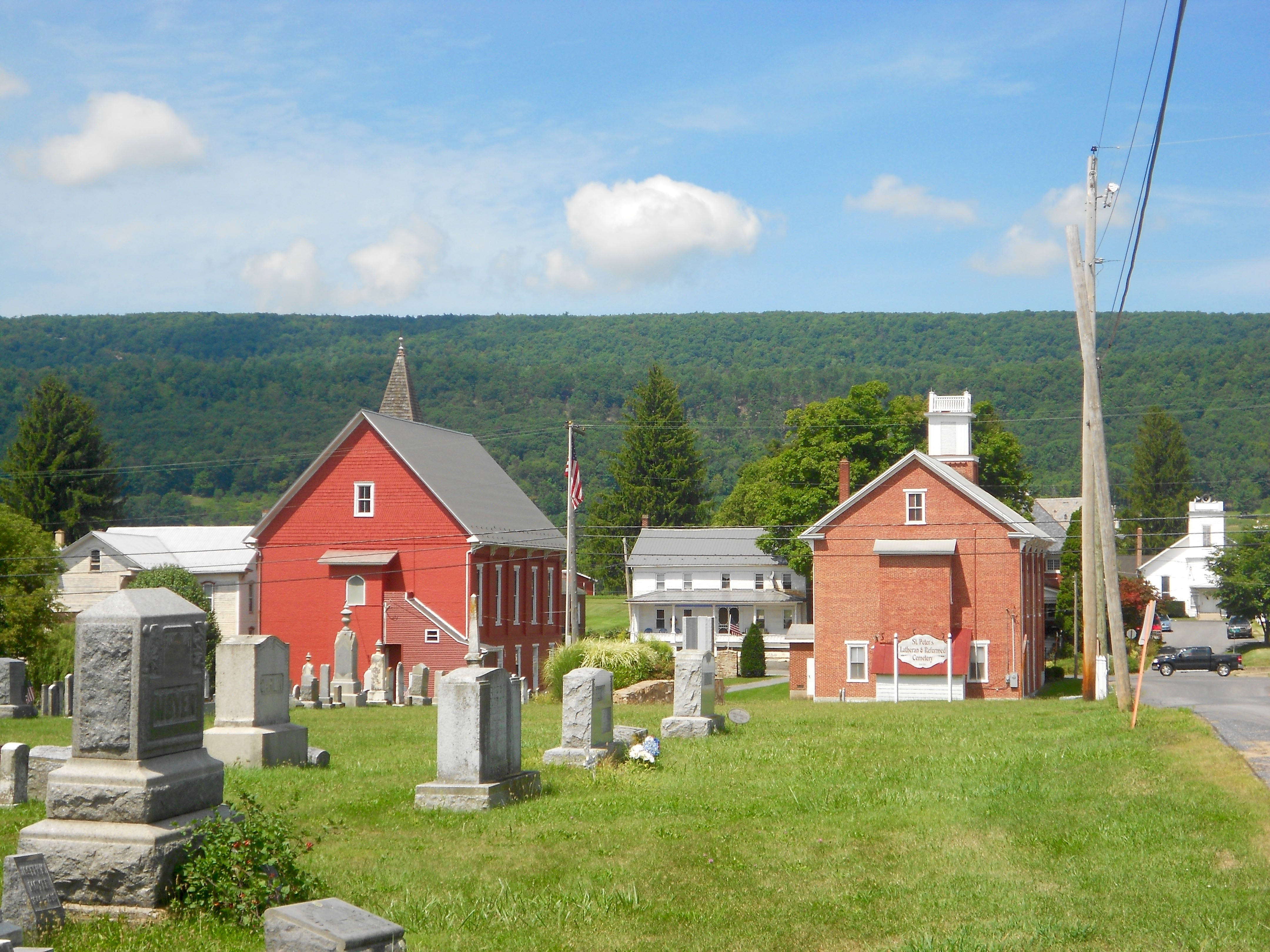 Rear view of St. Peters Lutheran Church and St Peters UCC Church in Rebersburg, Centre County, Pennsylvania. Part of the Rebersburg Historic District, listed on the NRHP on December 7, 1979 (#79002188), on Pennsylvania Route 192 in Rebersburg, Miles Township. 40°56′40″N 77°26′35″W These churches have something of an odd relationship with the one next to it. They share a cemetery in back of their properties. They have a sign on the doors showing that they alternate services during the summer so that each congregation attend the other church half the time. I'm speculating that they were founded together as one "German church" during the 18th century and then split later, but still retain a common bond.